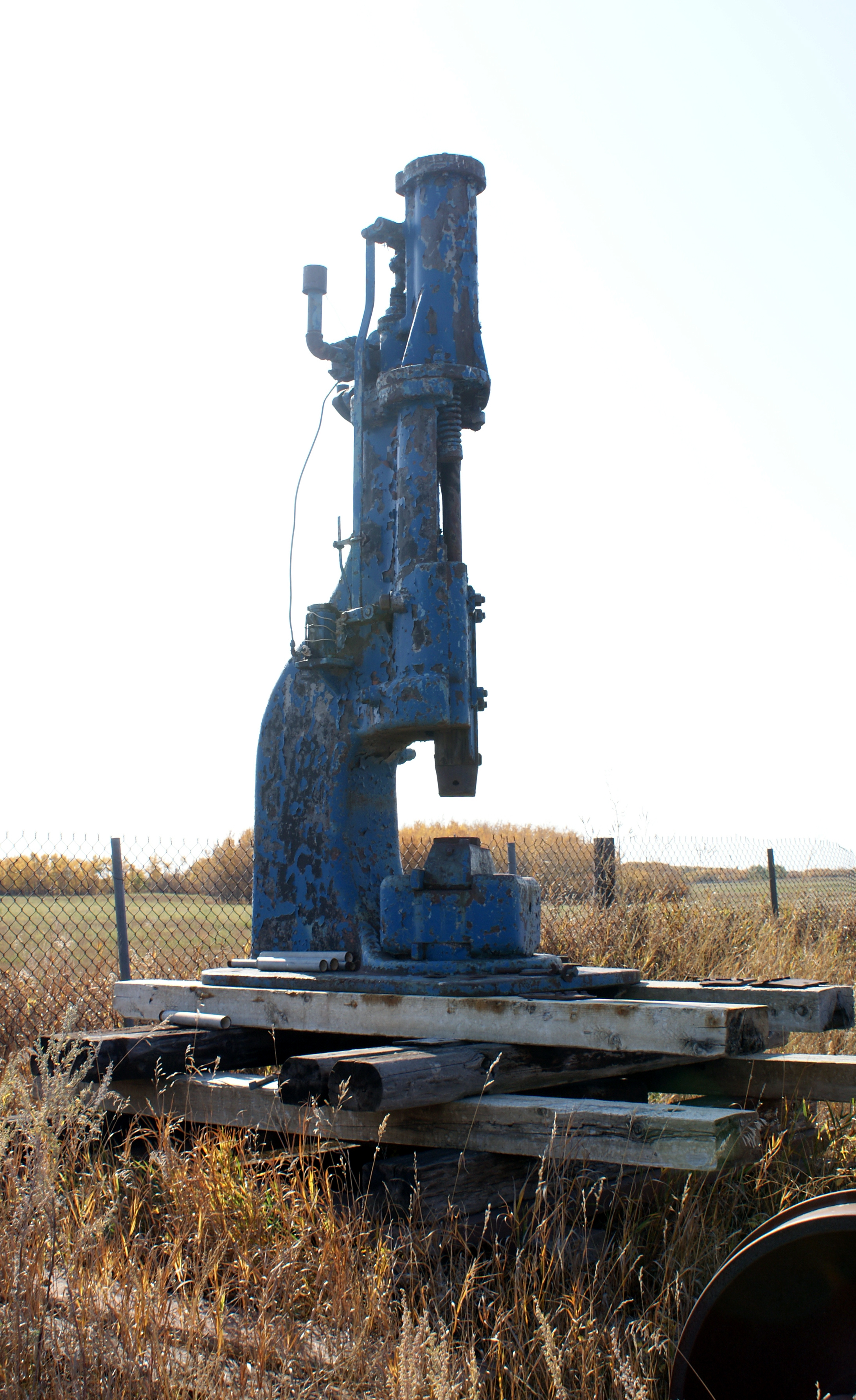 Big hammer at the Saskatchewan Railway Museum